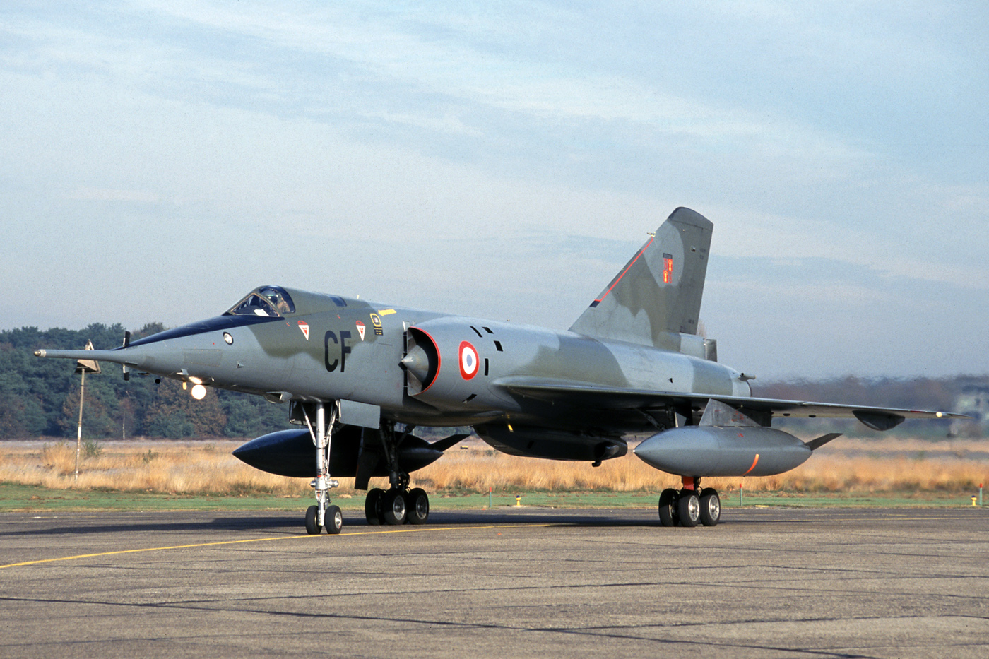 59/CF is taxiing at Kleine Brogel during the spotters day on 16 November 1999. These huge reconnaissance aircraft were operated by Escadron de Reconnaissance Stratégique 91 'Gascogne' at Mont de Marsan until 2005. 59 is now preserved at Creil airbase, north of Paris.